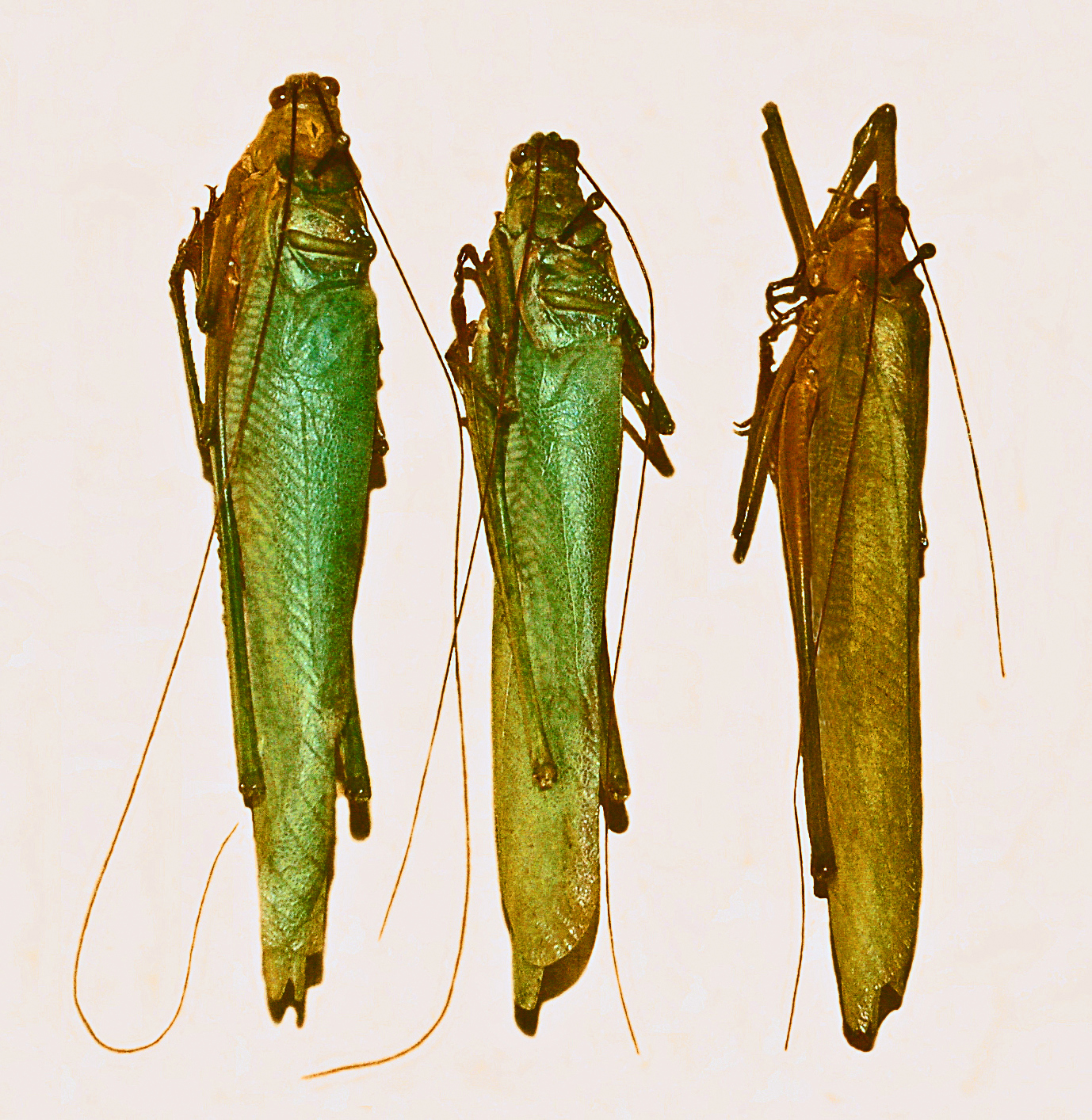 Zeuneria melanopeza, male and female, from Fernando Po Island. Mounted specimen